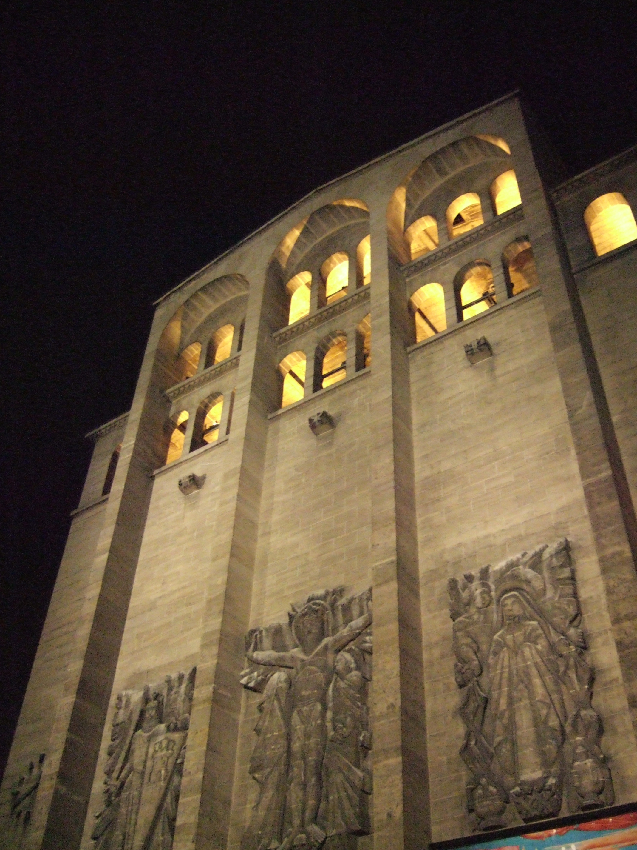 Catholic church Saint-Ferdinand in Paris (XVIIth district)